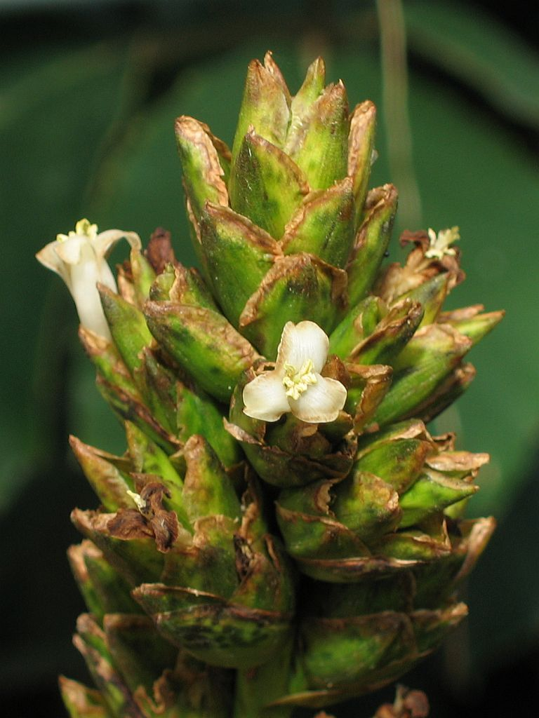 Guzmania bismarckii, in cultivation at the Botanical Garden of Heidelberg, Germany.